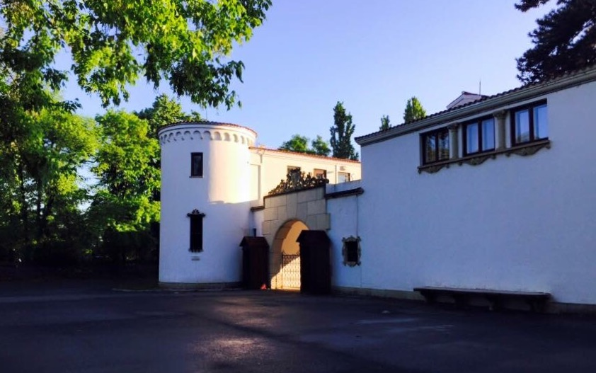 Front left view of Elisabeta Palace